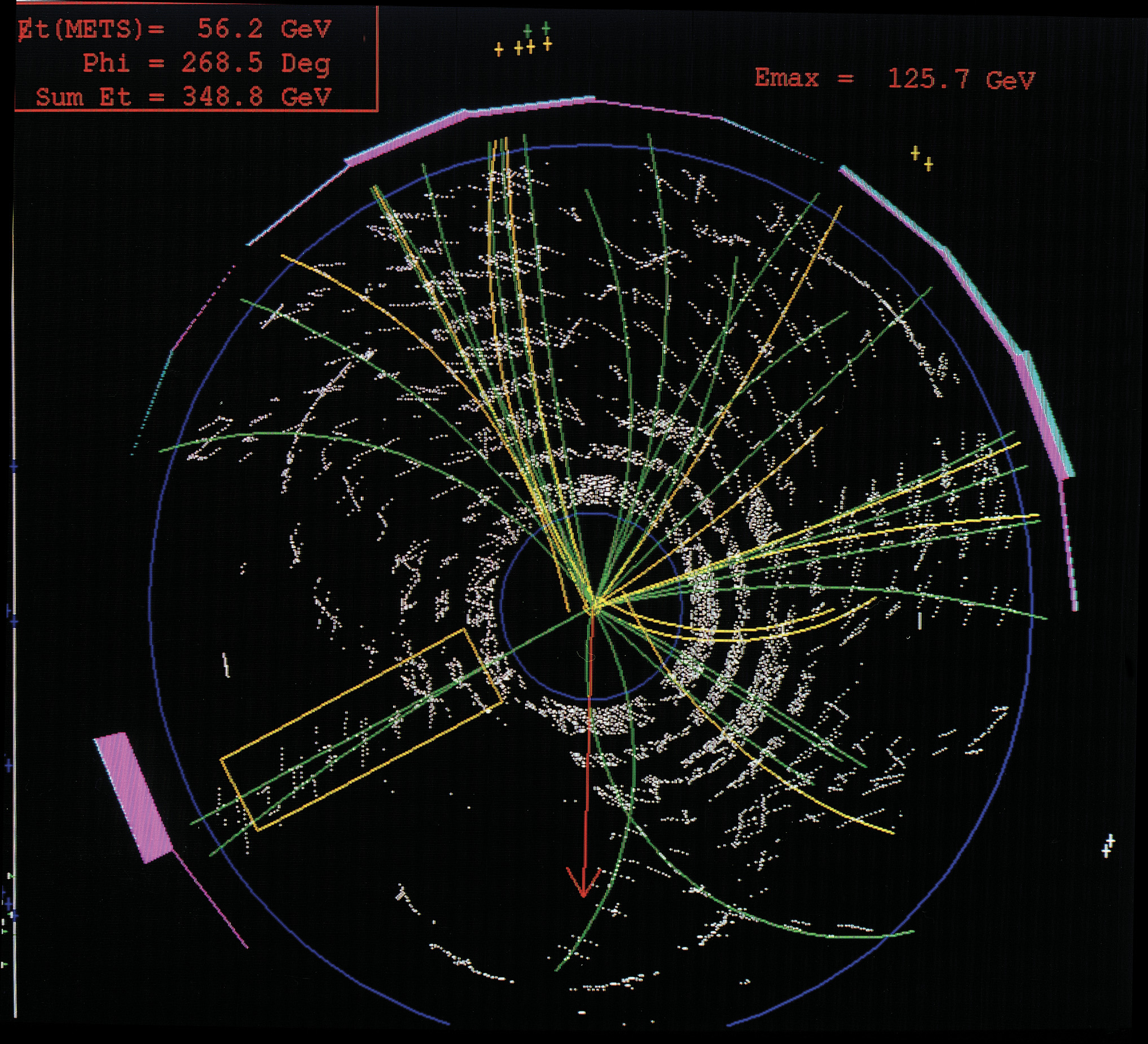 from